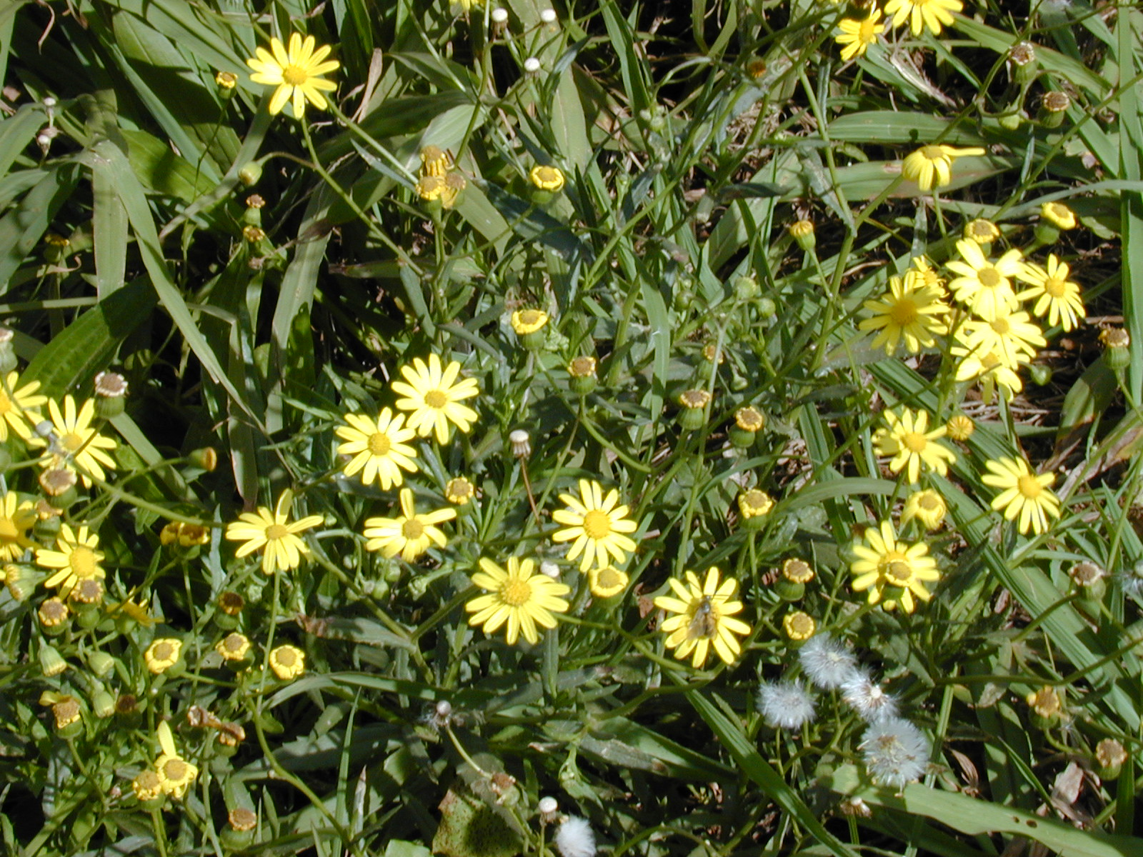 Senecio madagascariensis (flowers). Location: Maui, Hui Noeau Makawao